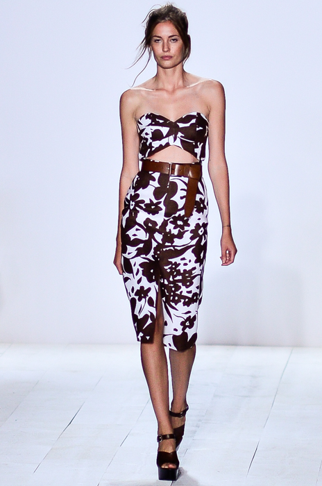 A model walks the runway at the Michael Kors Spring/Summer 2014 show at New York Fashion Week, September 2013.